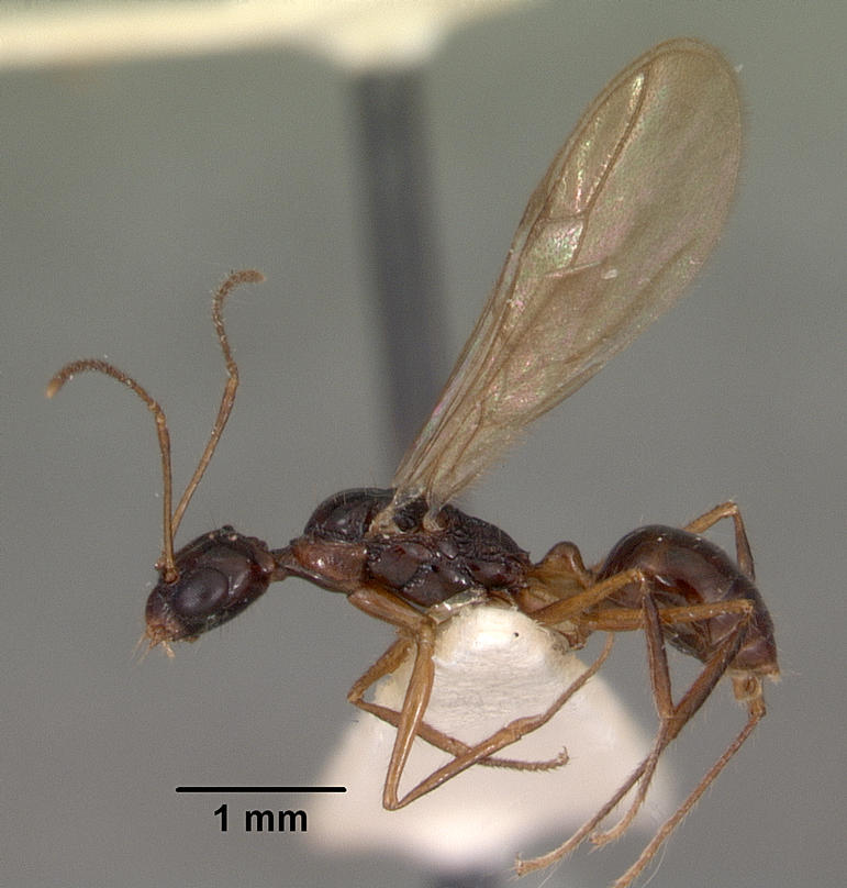 Profile view of ant Myrmoteras indicum specimen casent0102162.